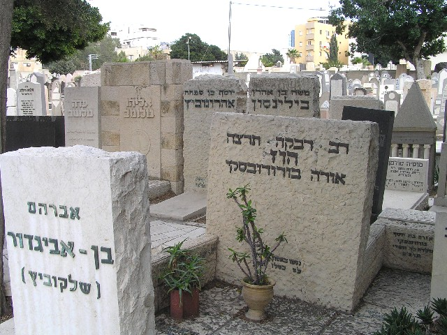 Tomb of Dov Hoz and family in Trumpeldor cemetery in Tel Aviv photographed by Eman, Fecruary 2006